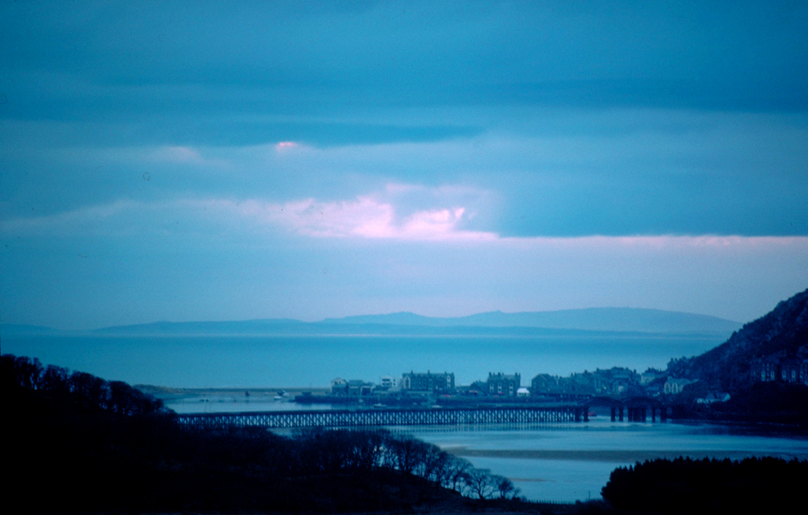 Village of Barmouth and Barmouth Bridge in North Wales/UK, located on the Mawddach estuary